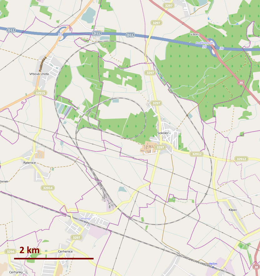 Overview map of the railway test circuit Cerhenice (near Velim, the Czech Republic) This map may be incomplete, and may contain errors. Don't rely solely on it for navigation.